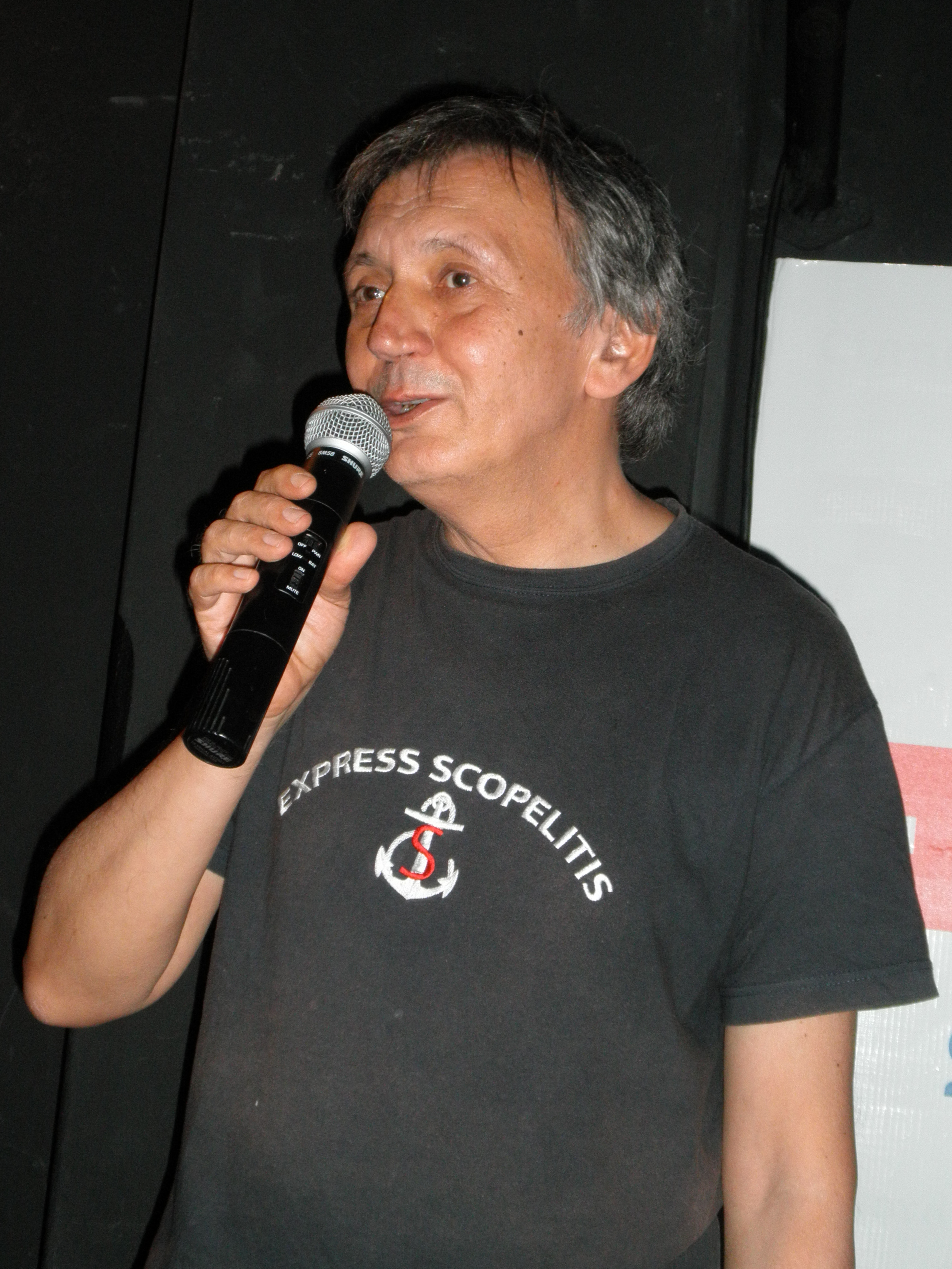 Photo of the Czech philosopher Zdeněk Kratochvíl in 2012. (Red eyes effect removed.)